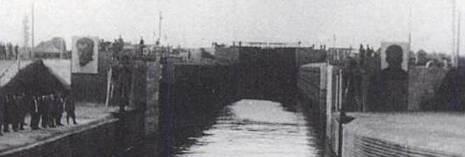 The entrance of the White Sea - Baltic Canal at Powenez sortly after its completion in 1933. At the left side is a large portrait of Stalin, on the right side is an erradicated portait of Genrich Jagoda, the head of the soviet state security until his demise in 1936. After his arrest in 1937 the soviet censors deleted all evidence of the "enemy of the state", so his face has been made irrecognizable.